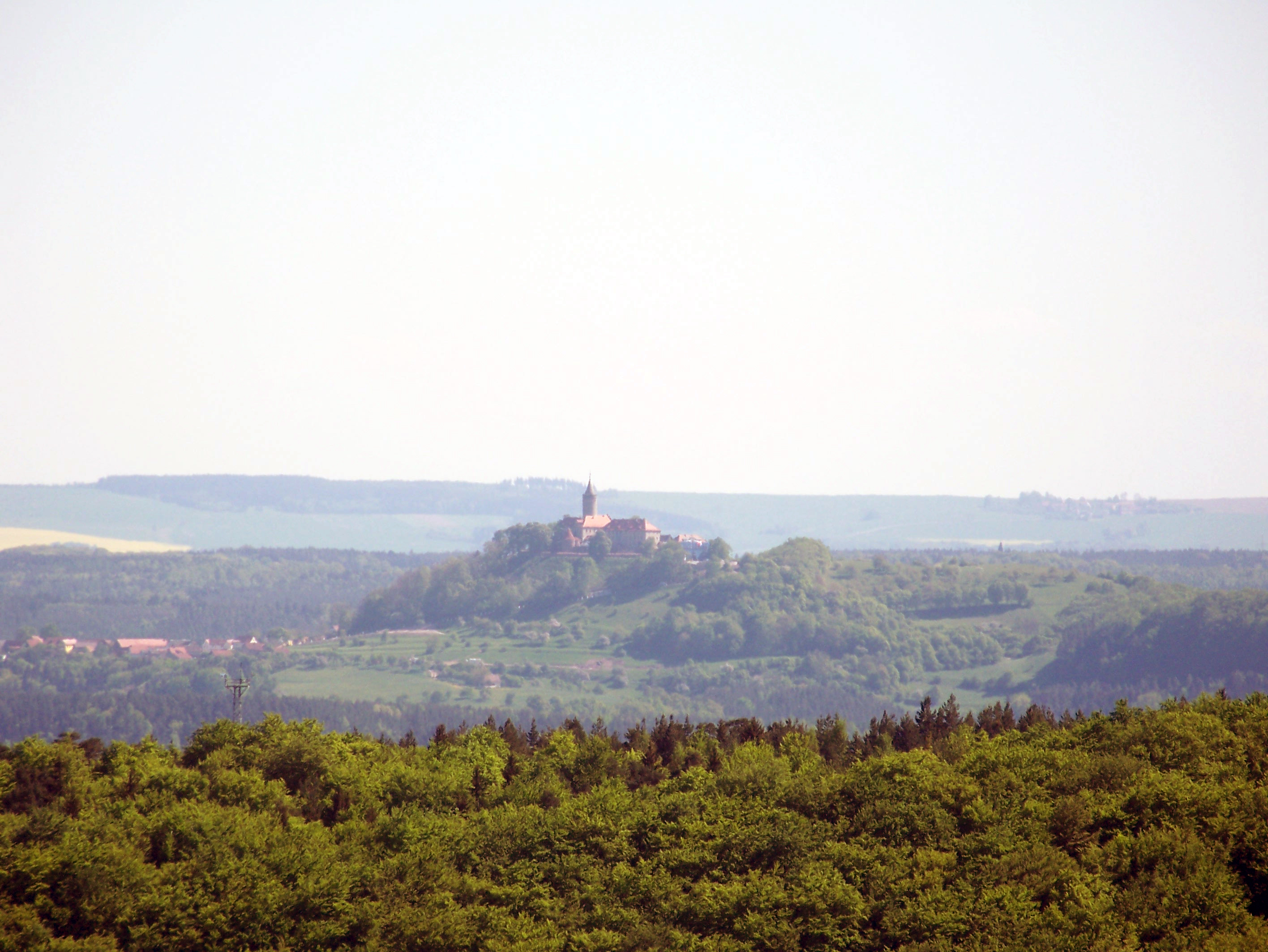 The valley and nature reserve Leutratal (in the environs of Jena), Thuringia, Germany: Outlook towards the Leuchtenburg Castle, municipality Seitenroda, near Kahla.